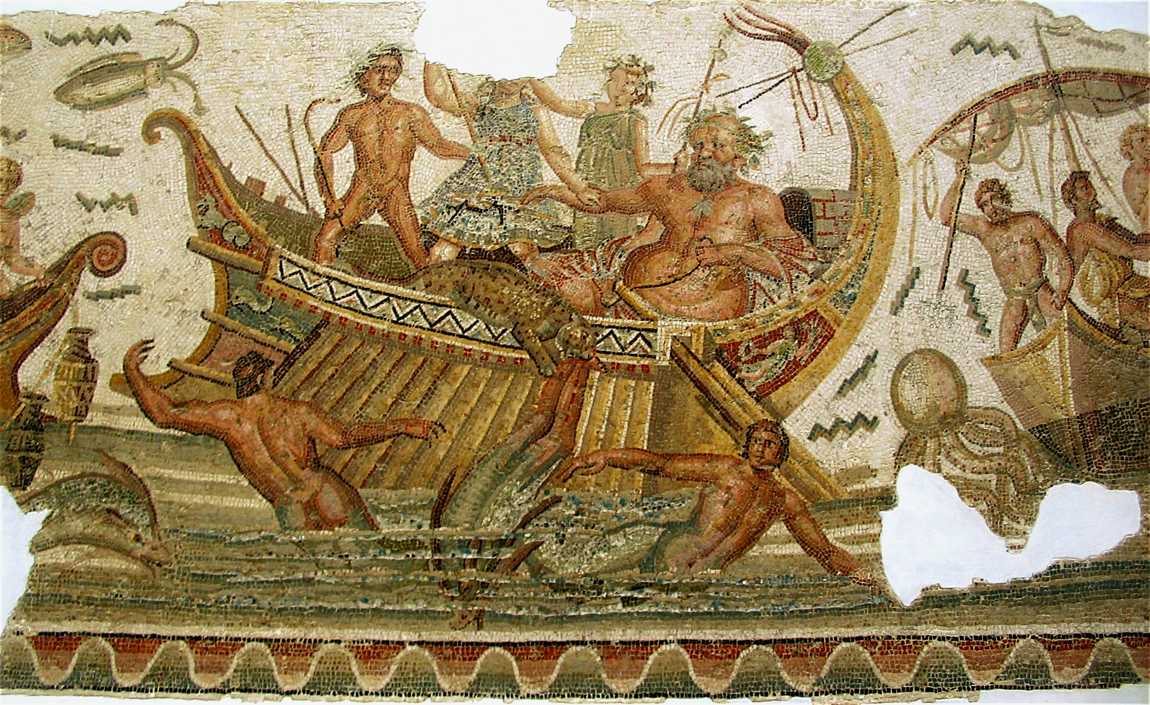 North African Roman mosaic, dated 2nd century AD: Panther-Dionysus scatters the pirates, who are changed to dolphins, except for Acoetes, the helmsman. Located in the Bardo National Museum of Tunis, Tunisia.